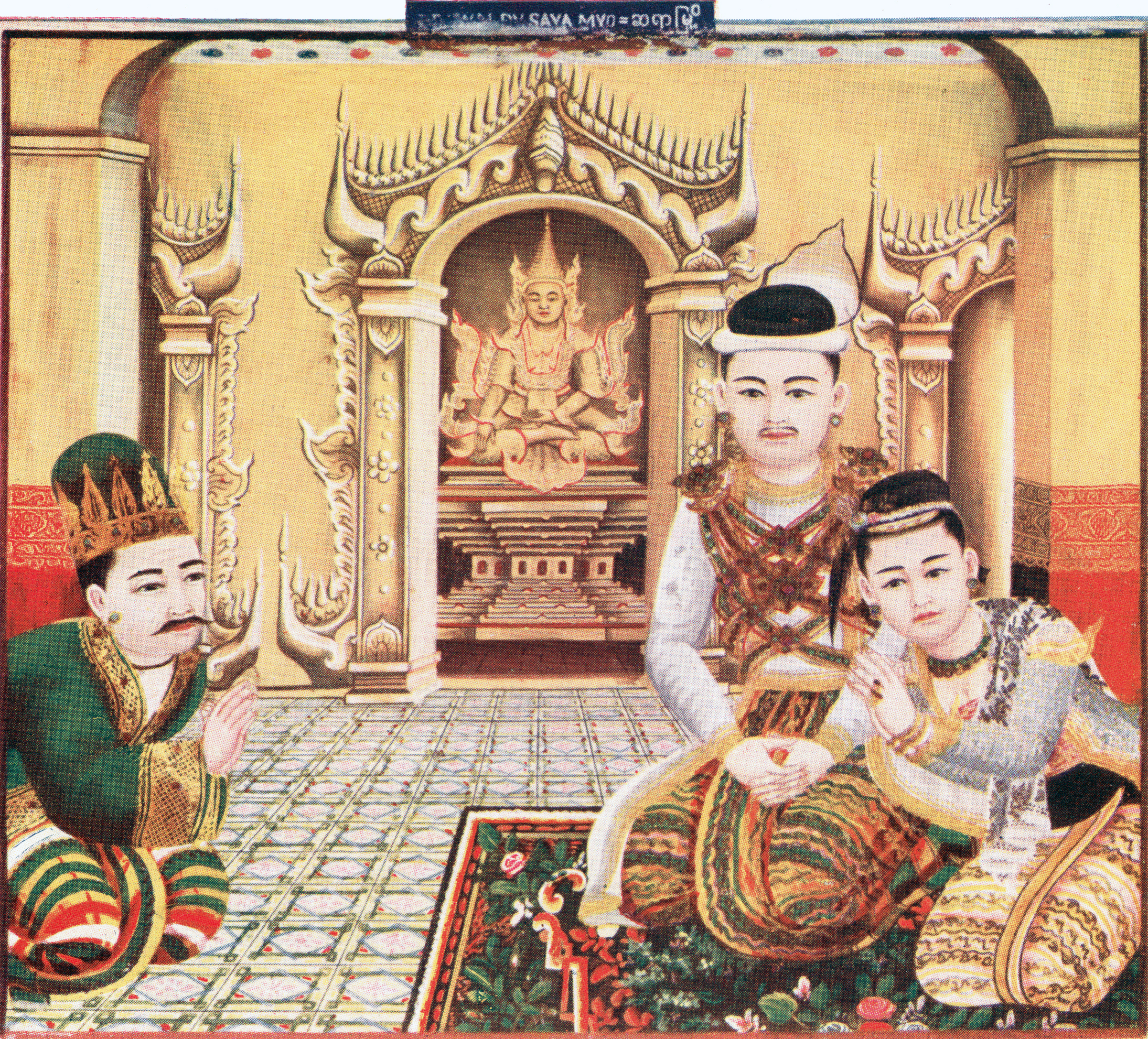 "Pya-shikoh" (From a Burmese Painting)